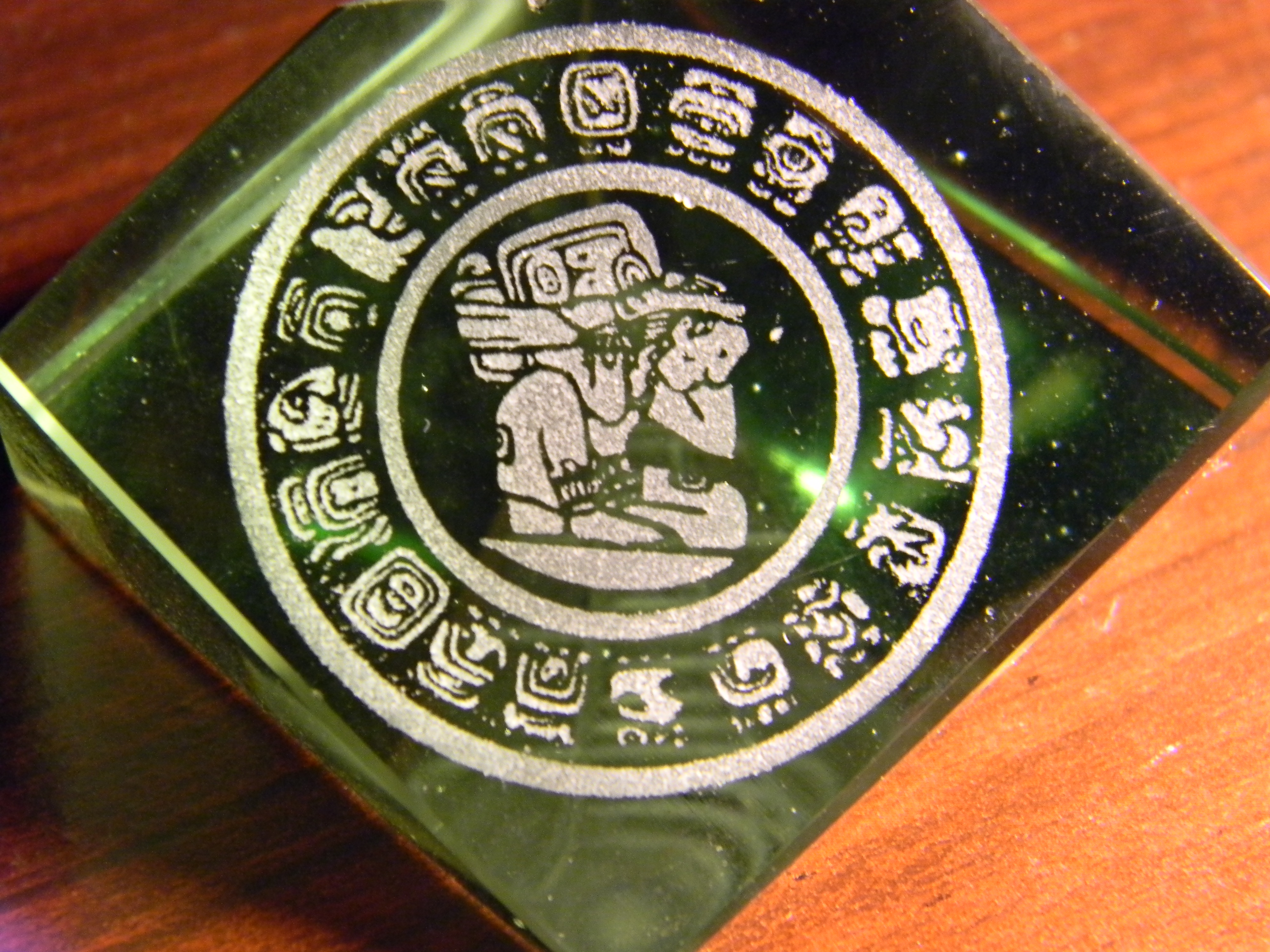 Mayan Calendar on glass